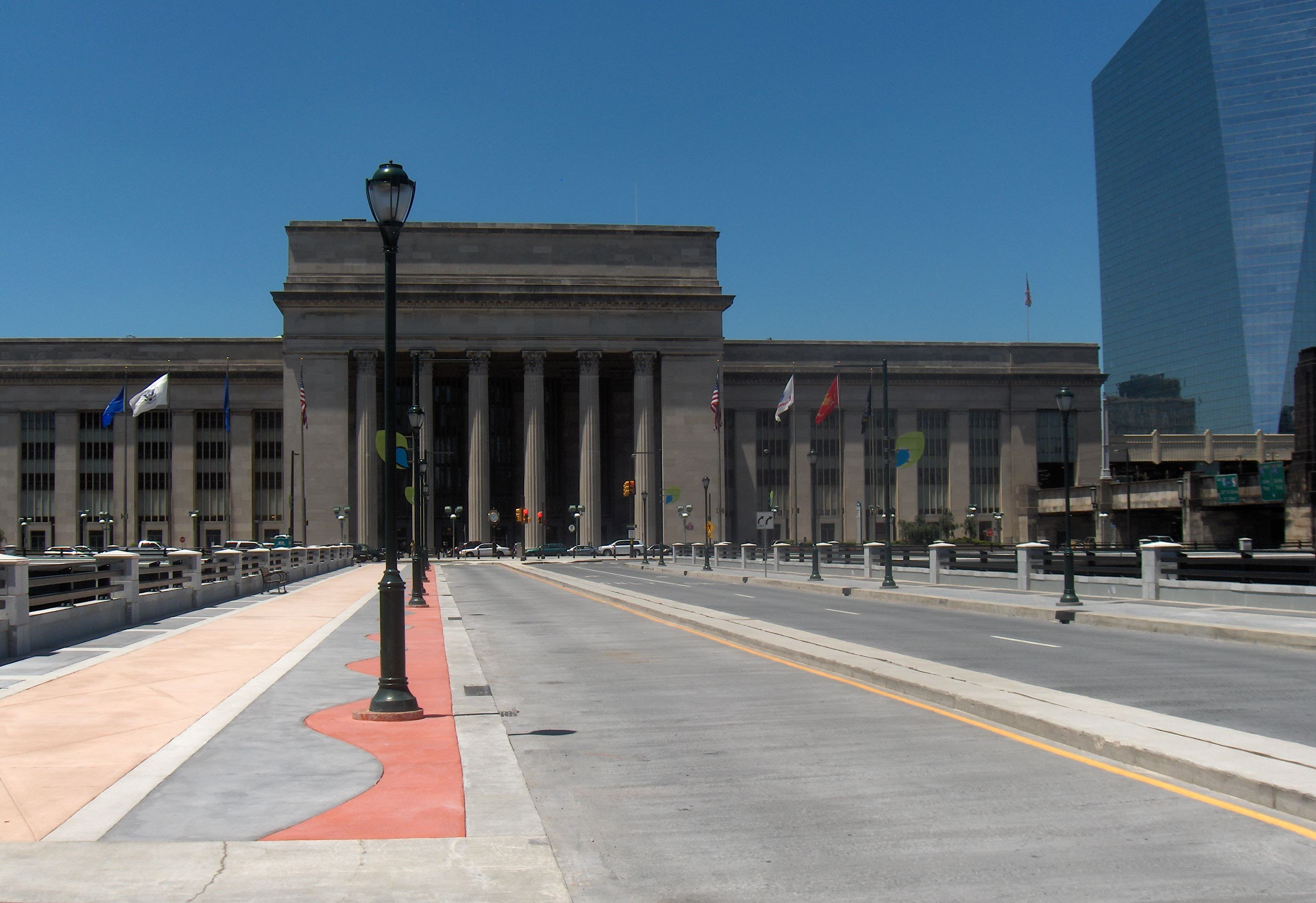 The John F. Kennedy Boulevard Bridge in Philadelphia was built in 1959 and reconstructed 2009 by the Pennsylvania Department of Transportation. It carries John F. Kennedy Boulevard (two lanes westbound, one lane eastbound) across the Schuylkill River, Schuylkill River Trail, and CSX Transportation tracks. Looking west towards the 30th Street AMTRAK station.